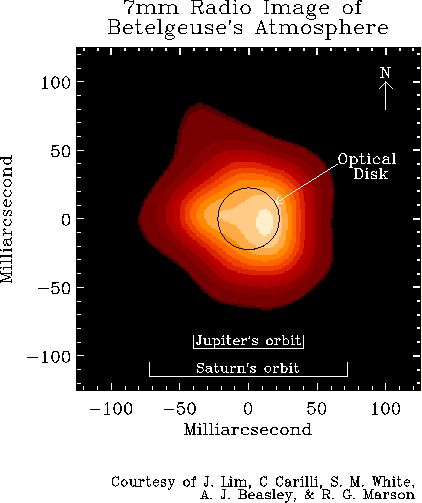 Propelled by convective forces, the star's atmosphere can expand beyond the orbit of Saturn (more).